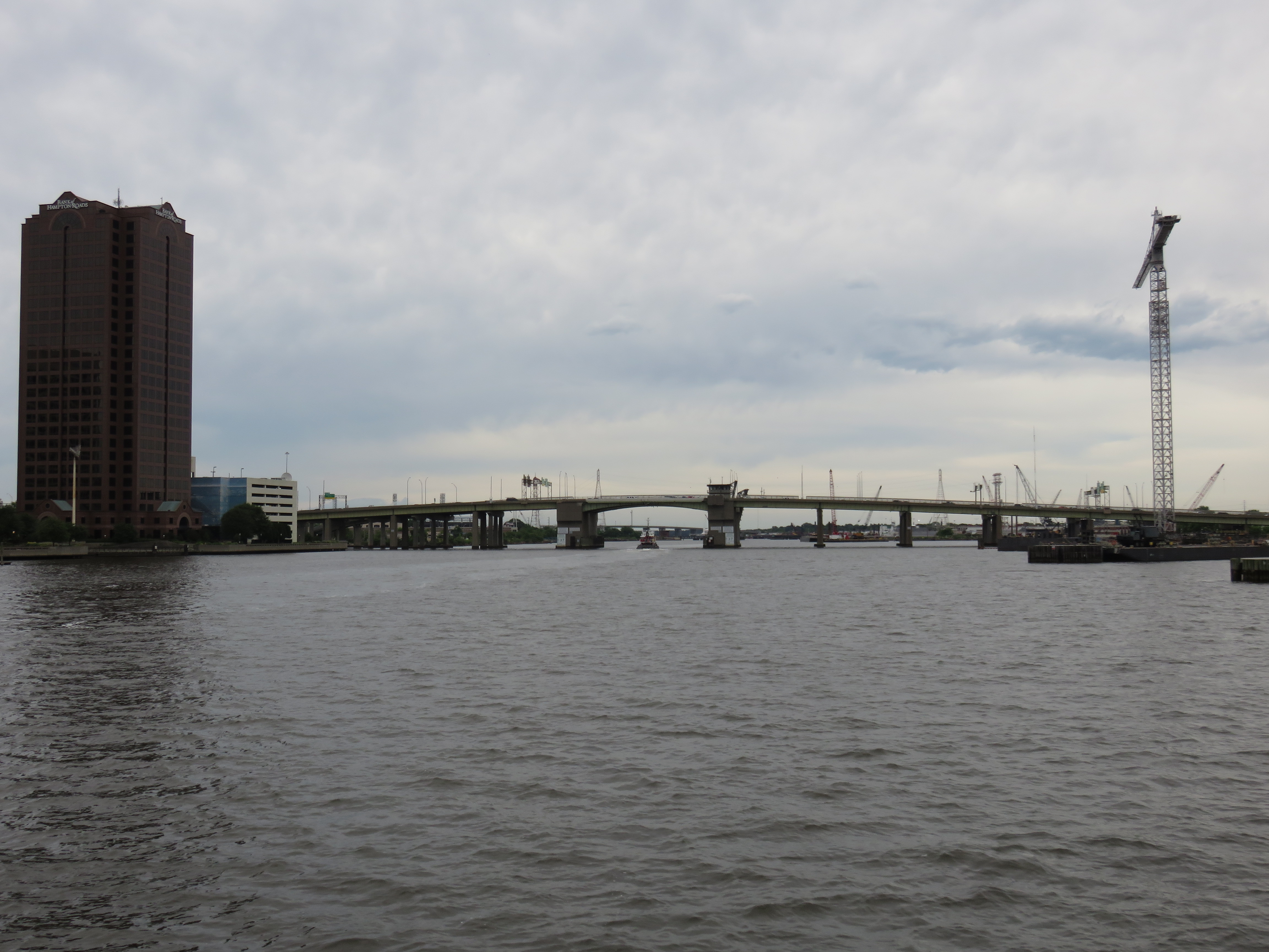 Berkley Bridge over the Eastern Branch Elizabeth River in Norfolk, Virginia in 2016